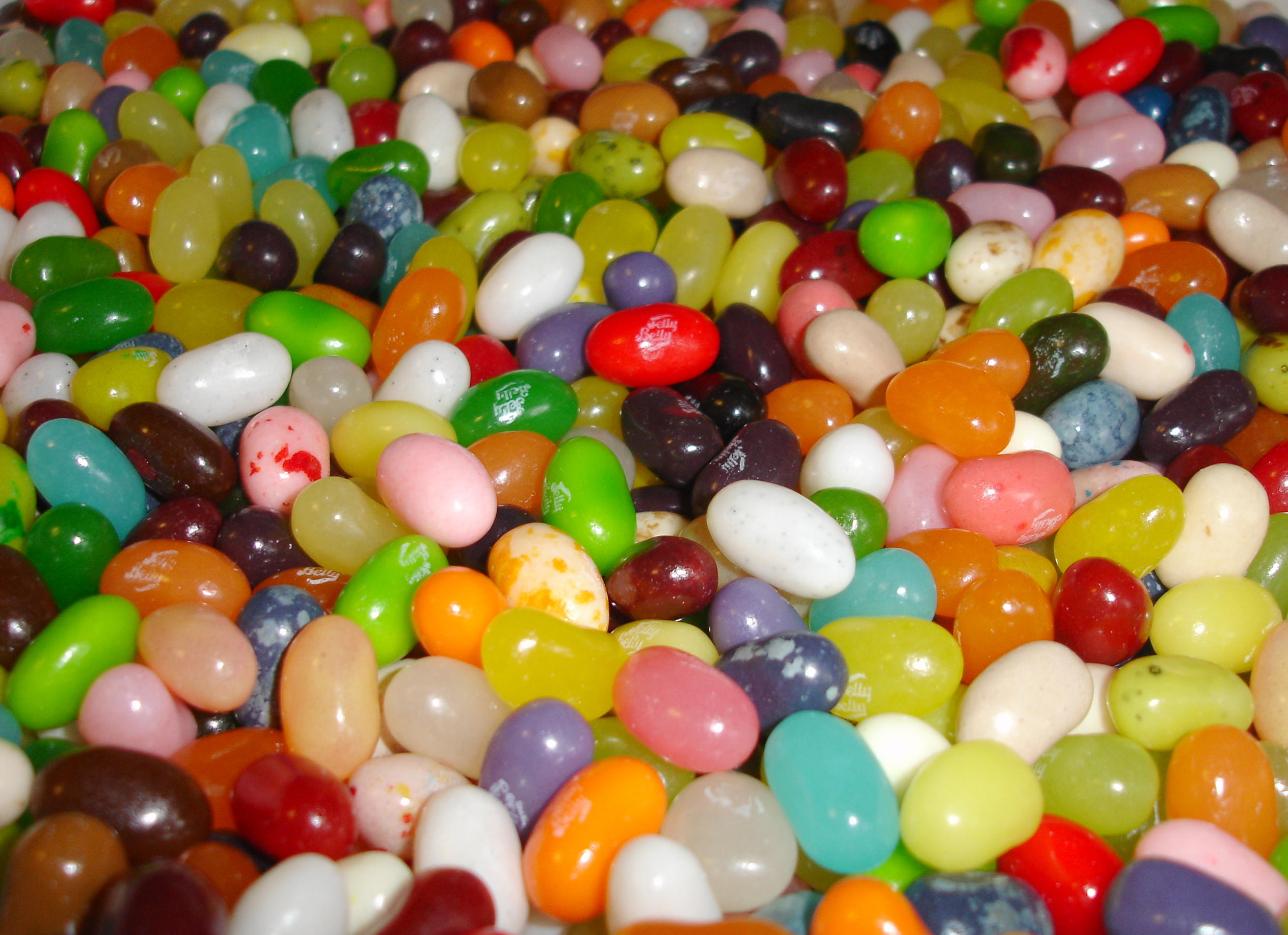 An "infinitely" endless sea of Jelly Belly jelly beans. The red one in the middle is turned specifically so that the logo is displayed. Photographed by Brandon Dilbeck on August 30, 2006. See also Image:JellyBellyPile.JPG Image:JellyBellyBeans.jpg Image:RedJellyBean.jpg